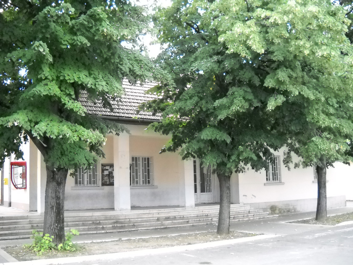 Local community office in Ledinci.